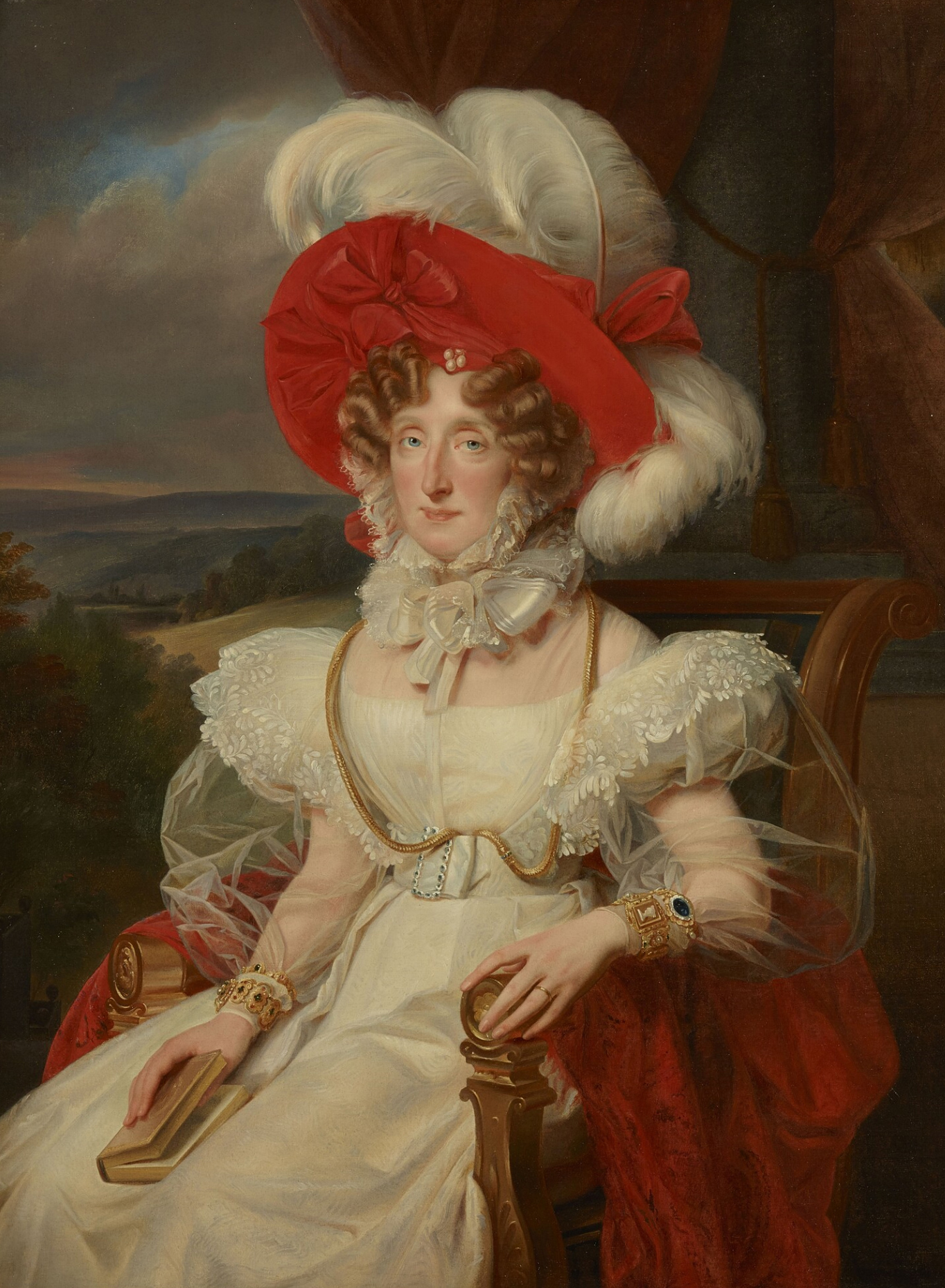 Portrait of Maria Amalia of Naples and Sicily (1782-1866)